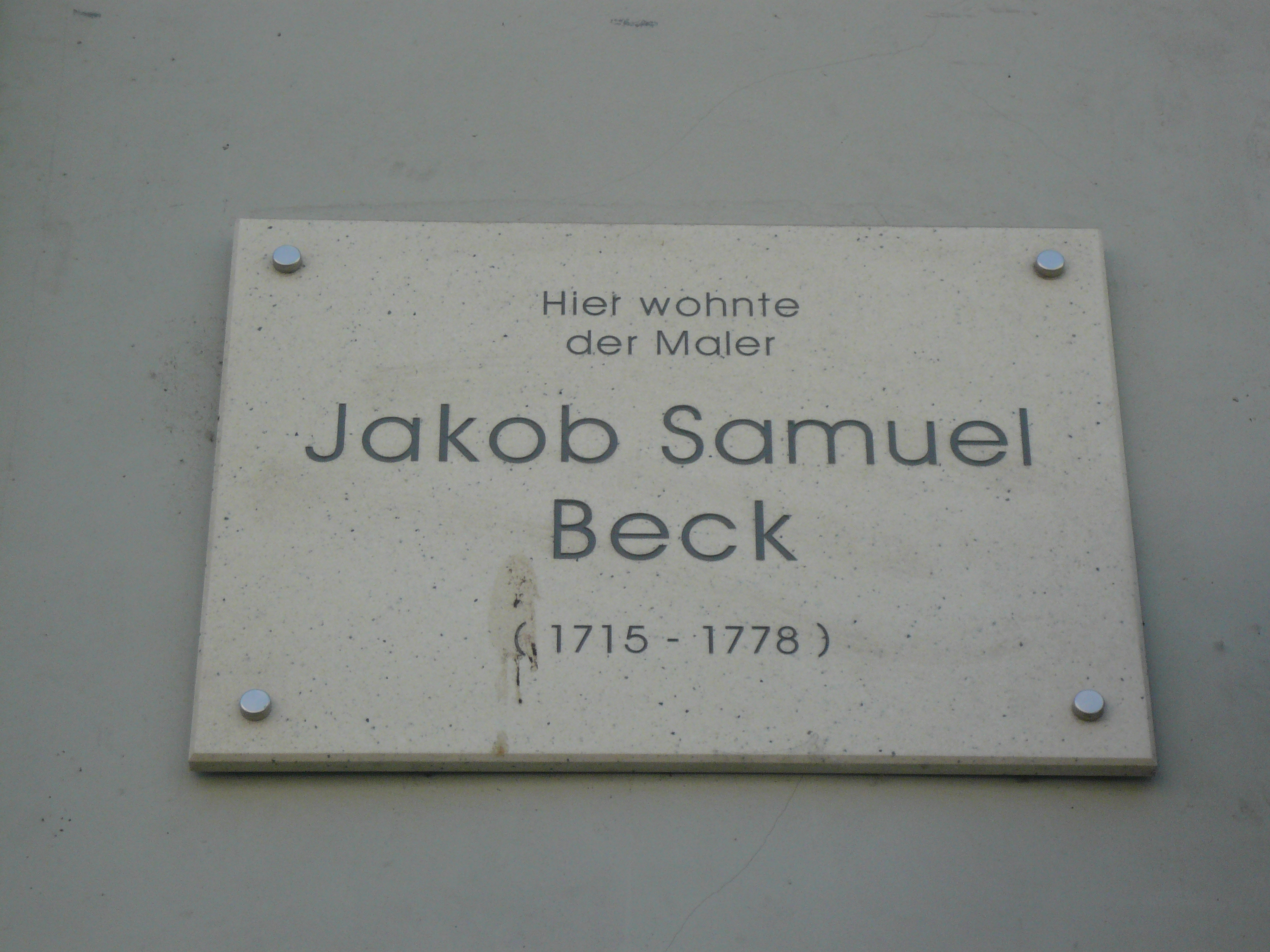 Memorial plaque for the painter Jakob Samuel Beck in Erfurt, germany